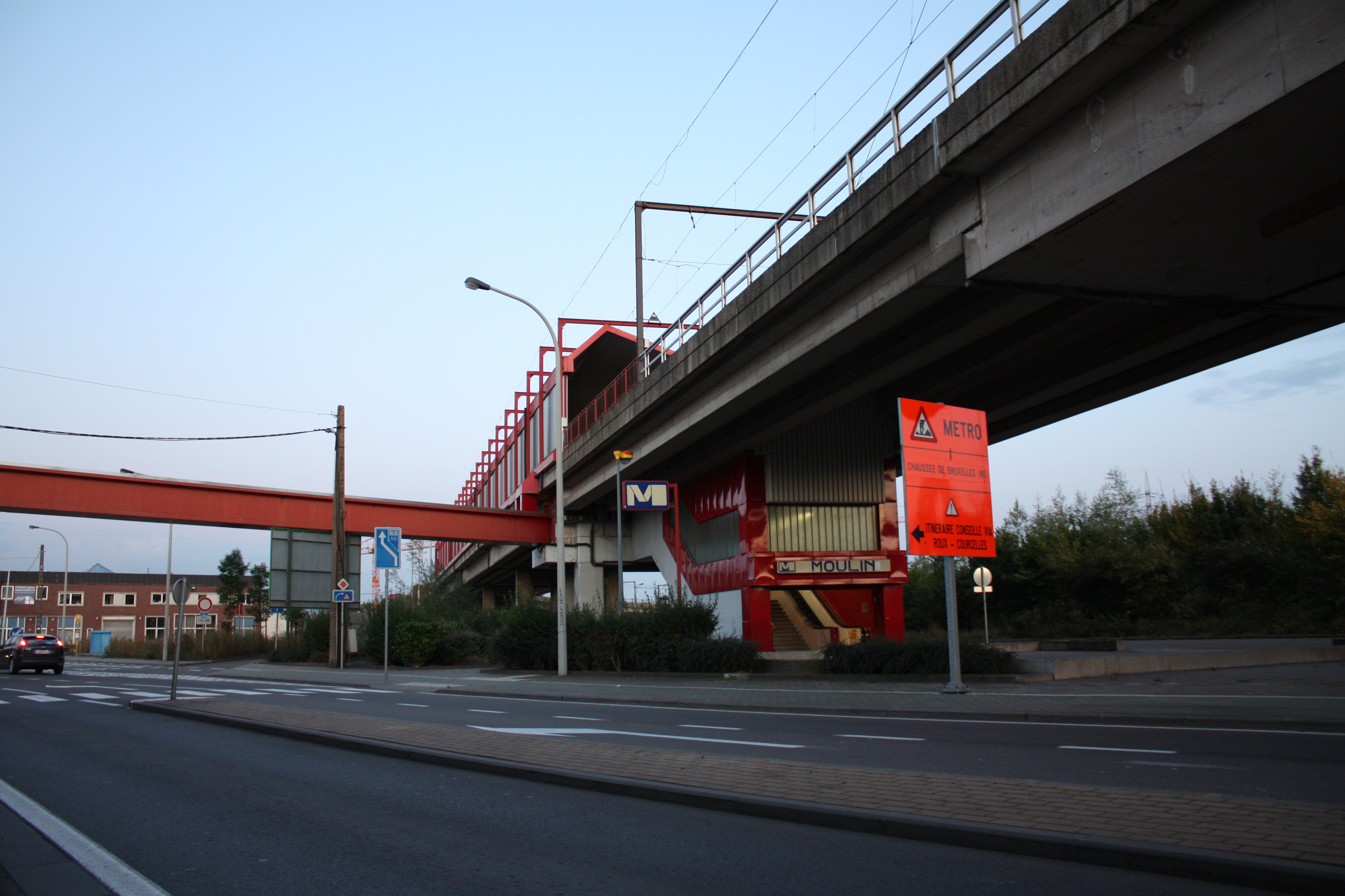 Moulin station Shot on 2009-09-19 on a tour of Charleroi's subway, kindly hosted by TEC-Charleroi. - OpenStreetMap(Info)